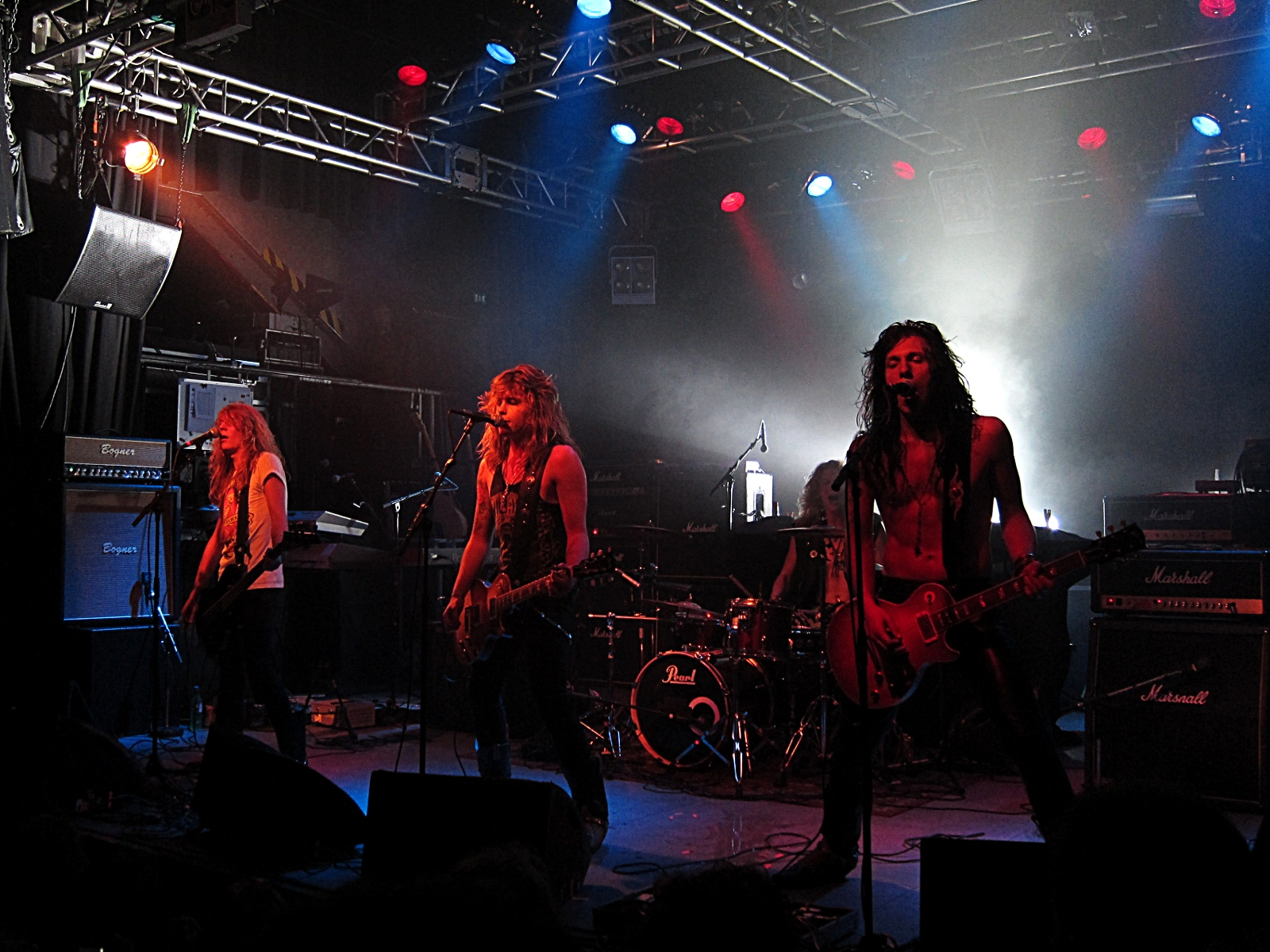 Santa Cruz @ Nosturi, 2011-06-21